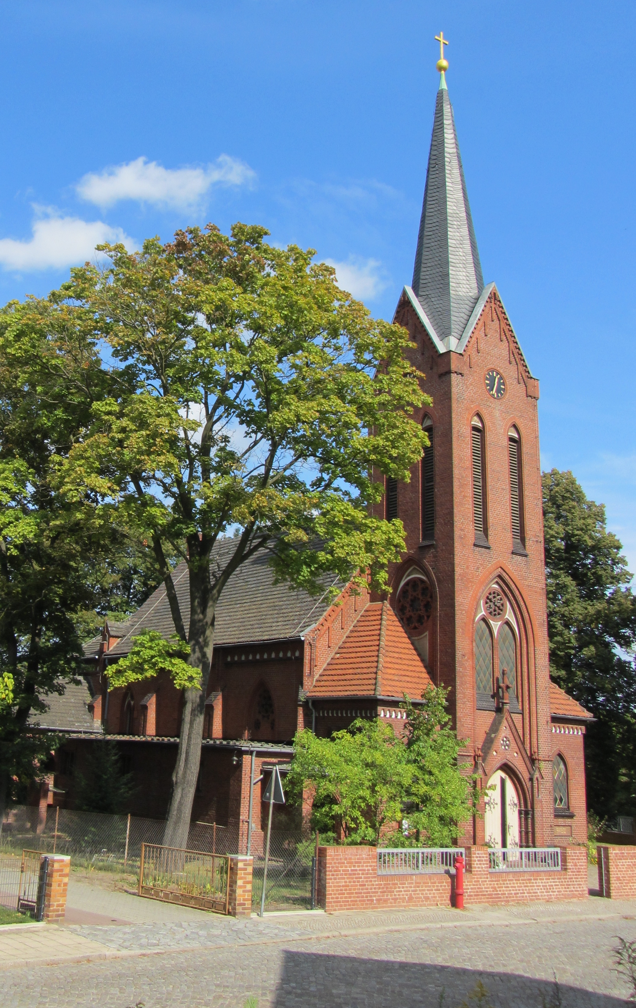 Catholic Church in Döbern, Germany